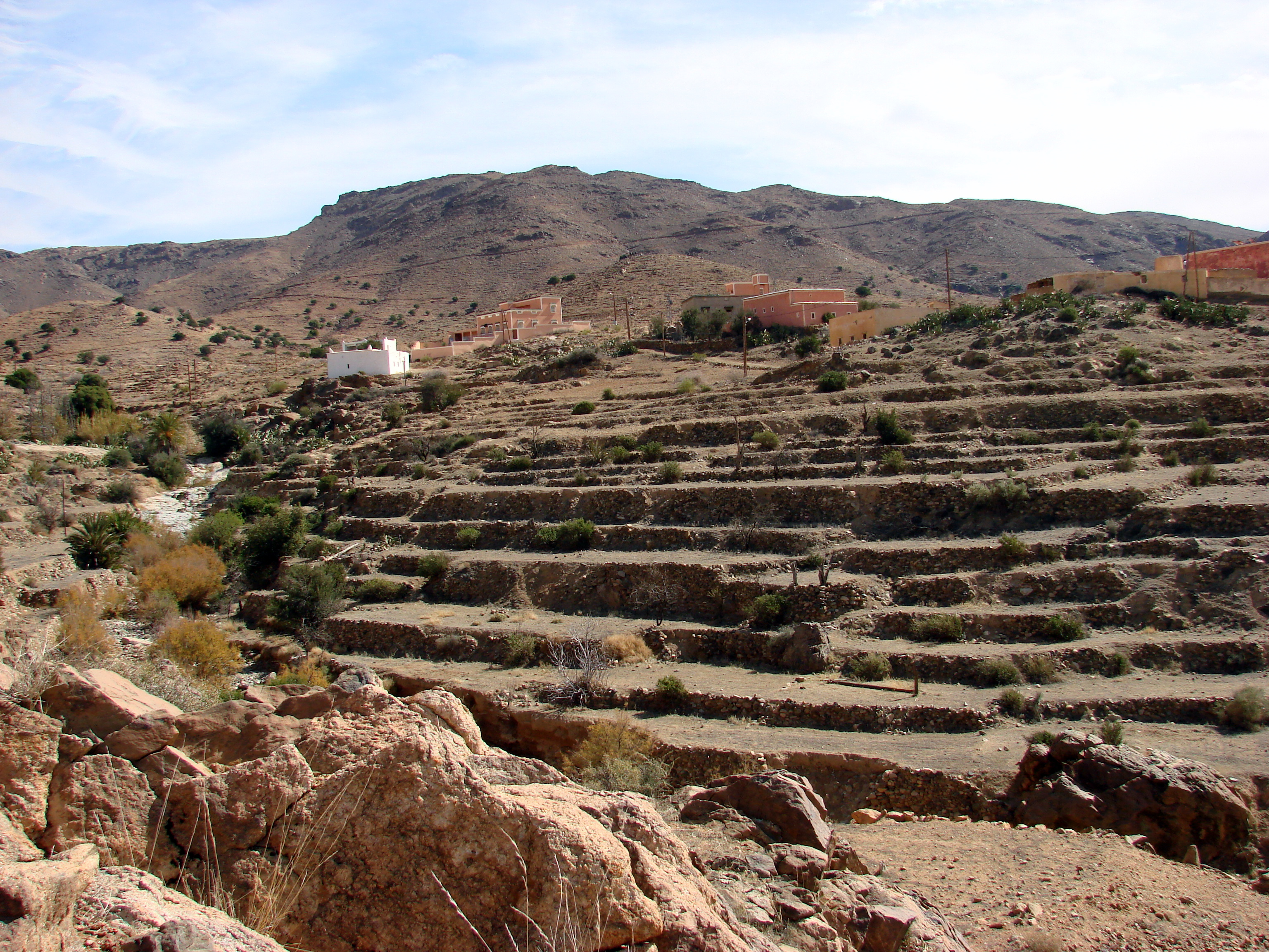 Remains of the cultivated fields